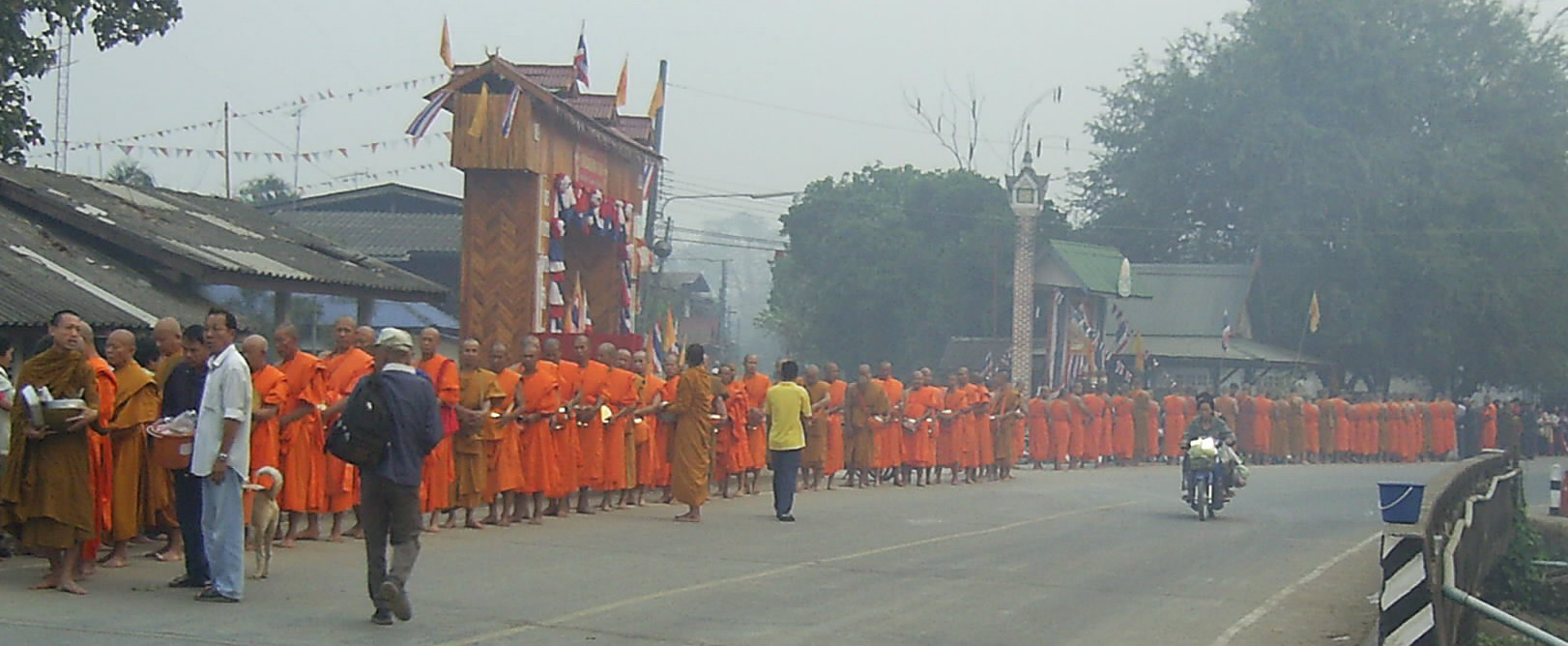 Phrae, Thailand